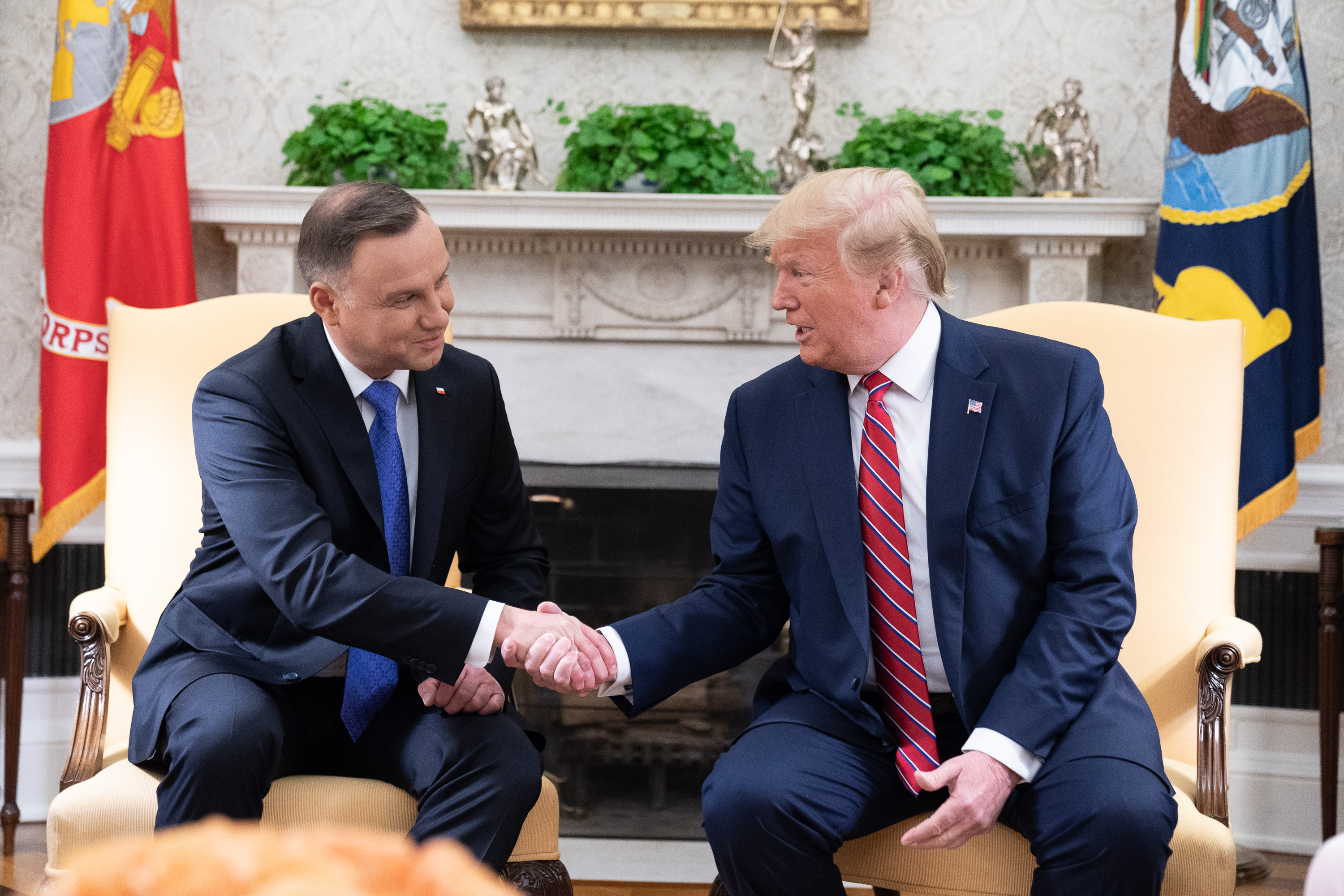 President Donald J. Trump and Polish President Andrzej Duda meet delegation members Wednesday, June 12, 2019, in the Diplomatic Reception Room of the White House. (Official White House Photo by Shealah Craighead)